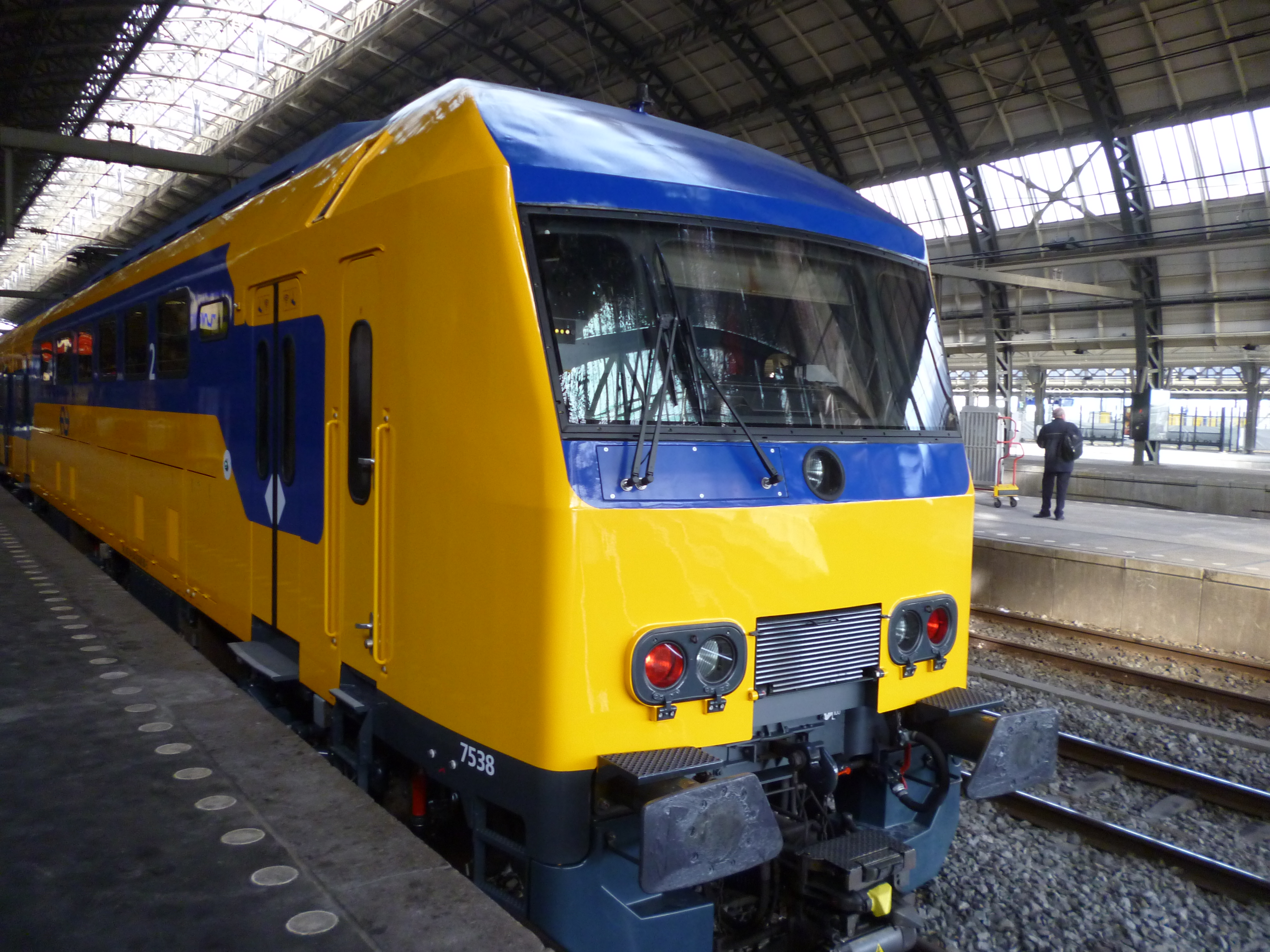 New Intercity Double decker train 7538 at Amsterdam Central station on 20 February 2012, when passengers and railway employees were first introduced to this remodeled DD-AR train.